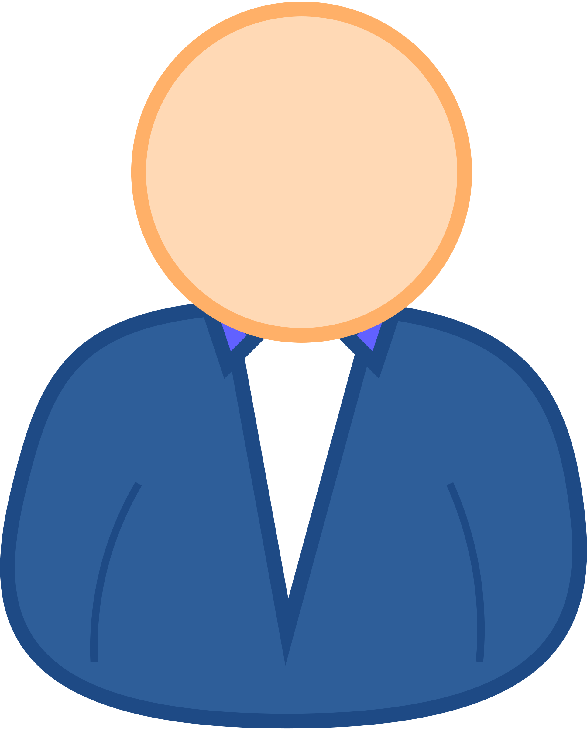 A user icon